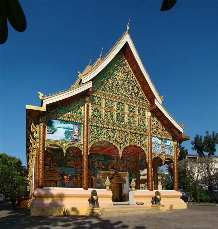 Vat Inpeng, Vientiane, Laos.